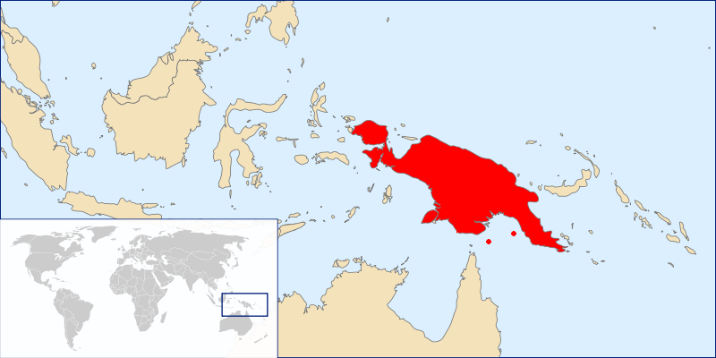 The geographic distribution of Varanus prasinus, denoted in red. It is found on Papua New Guinea and several islands in the Torres Strait, the rough locations of which are denoted by the circles.